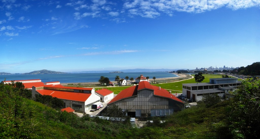 House of Air, a trampoline park in the foreground of Crissy field, within the Presidio of San Francisco